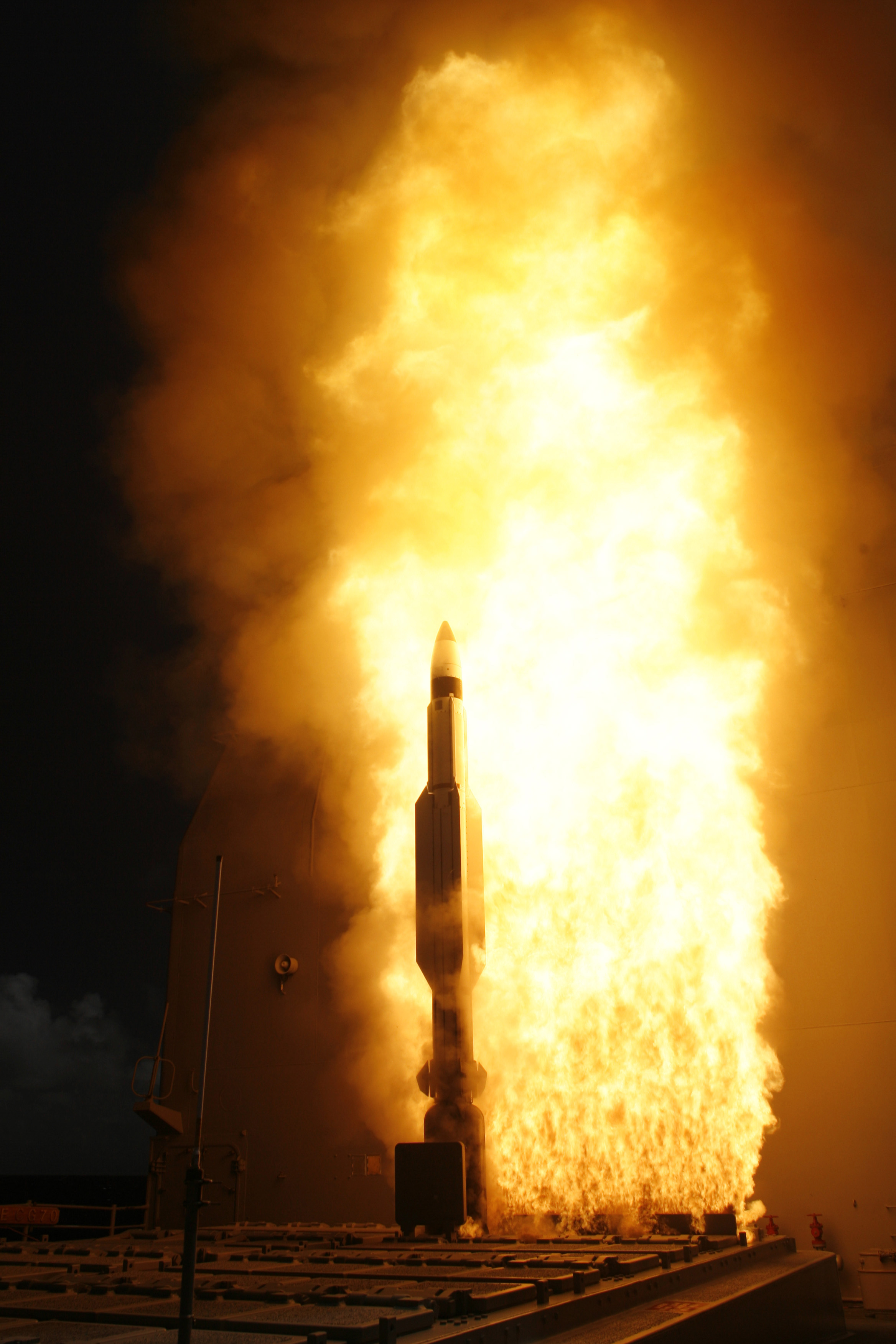 A standard missile 3 is launched from USS Lake Erie (CG 70) April 26, 2007, during a joint Missile Defense Agency/U.S. Navy ballistic missile flight test over the Pacific Ocean. The test was designed to show the capability of the ship and its crew to conduct ballistic missile defense and at the same time defend itself. This test also marks the 27th successful hit-to-kill intercept in tests since 2001.